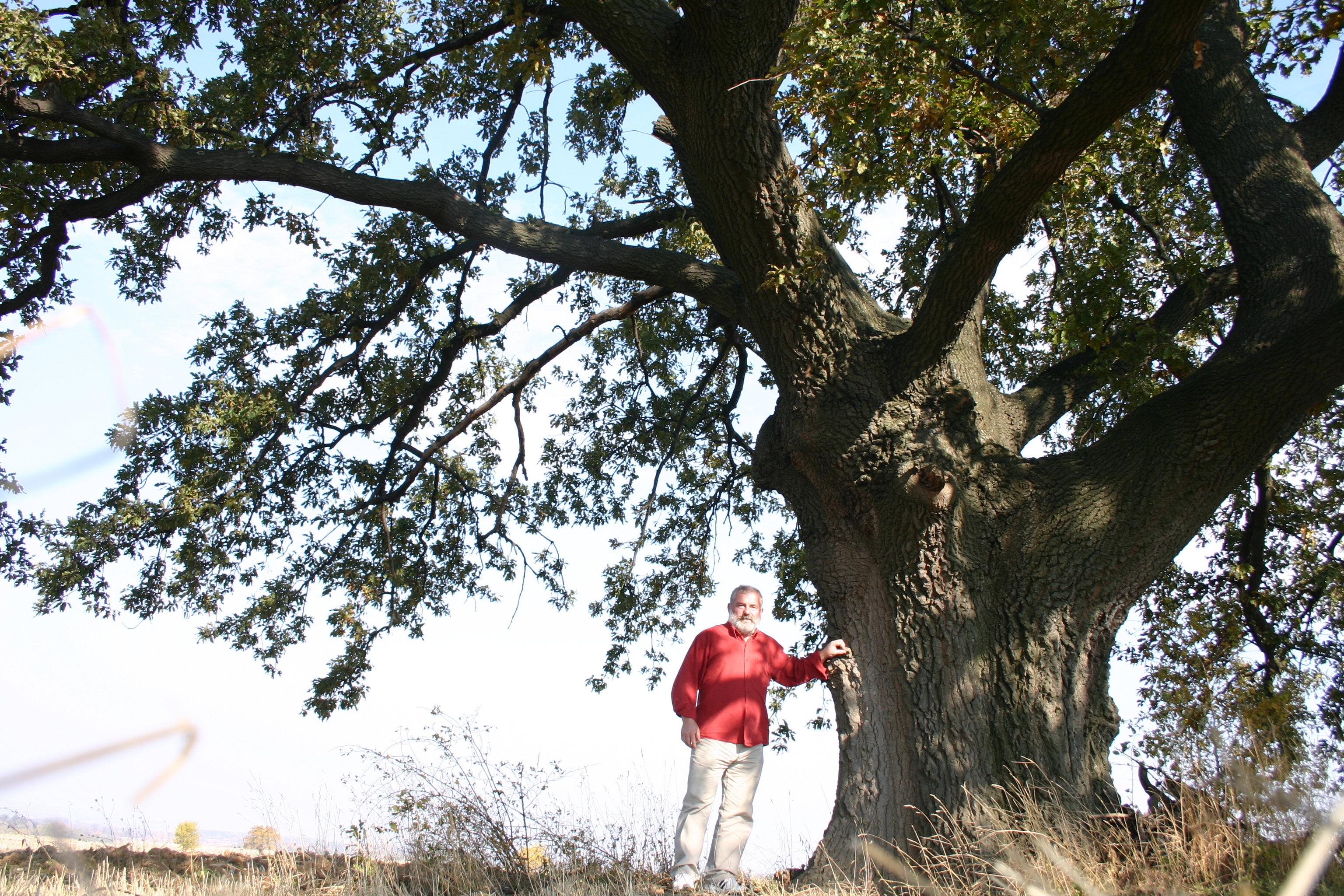 Zapis - Sacred Tree in village Vezičevo, municipality Petrovac na Mlavi, Braničevo District, Serbia